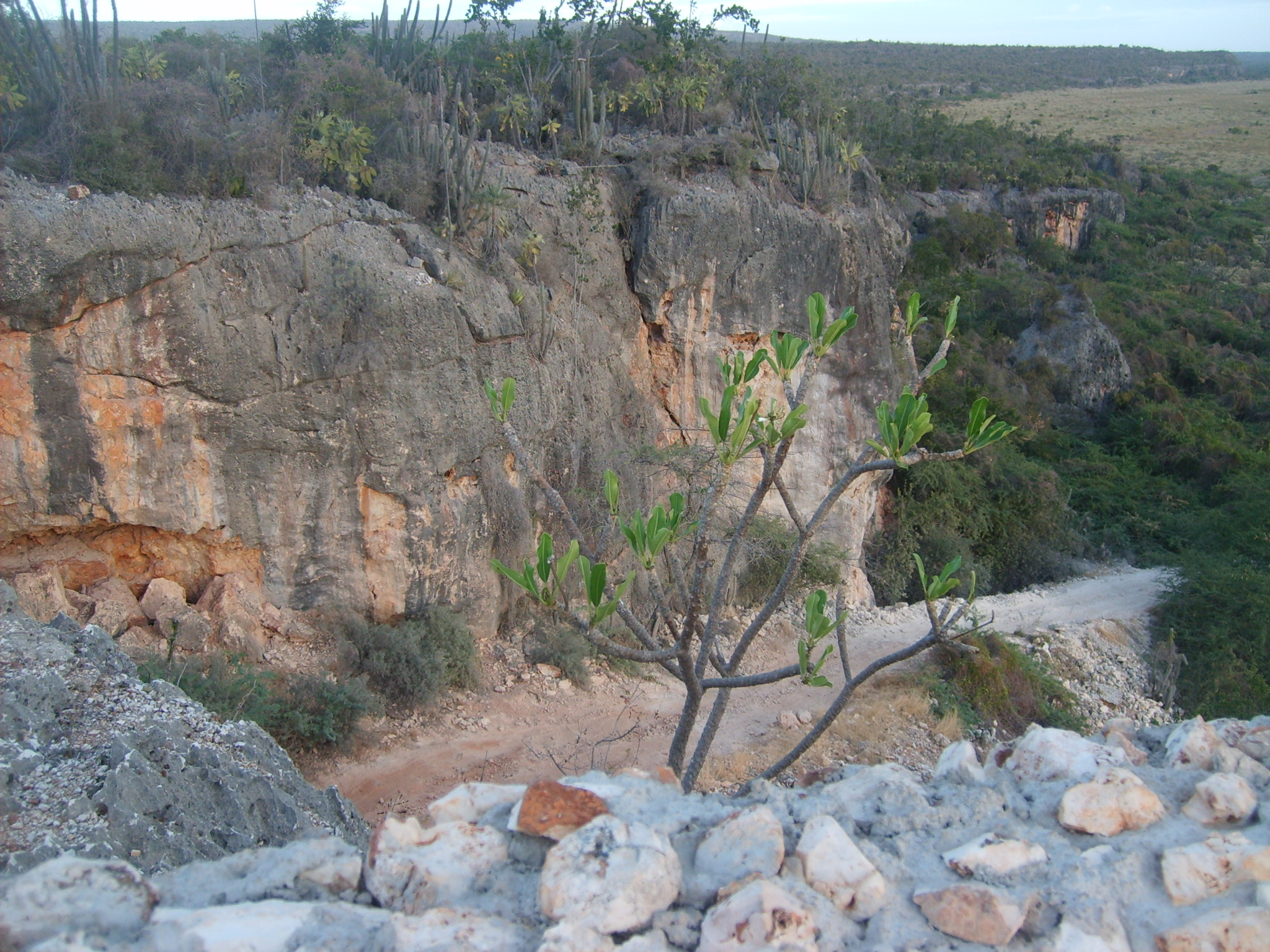 Main road to Bahia de las Aguilas, Jaragua National Park - Pedernales, Dominican Republic